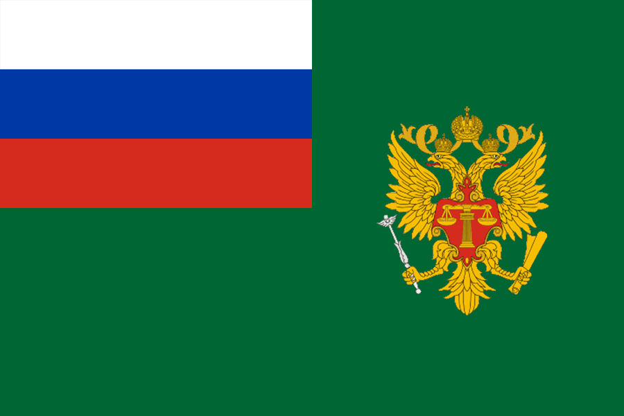 Flag of the Judicial Department at the Supreme Court of the Russian Federation